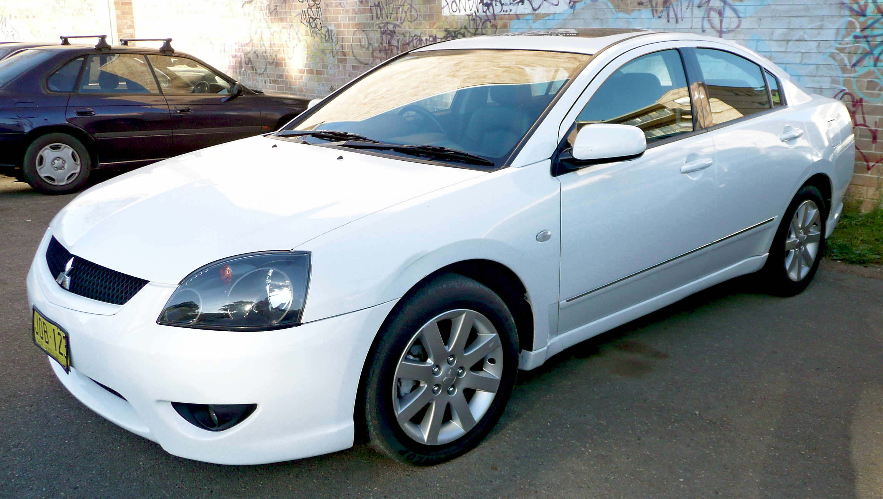 2005–2007 Mitsubishi 380 (DB) GT sedan. Photographed in Sutherland, New South Wales, Australia.